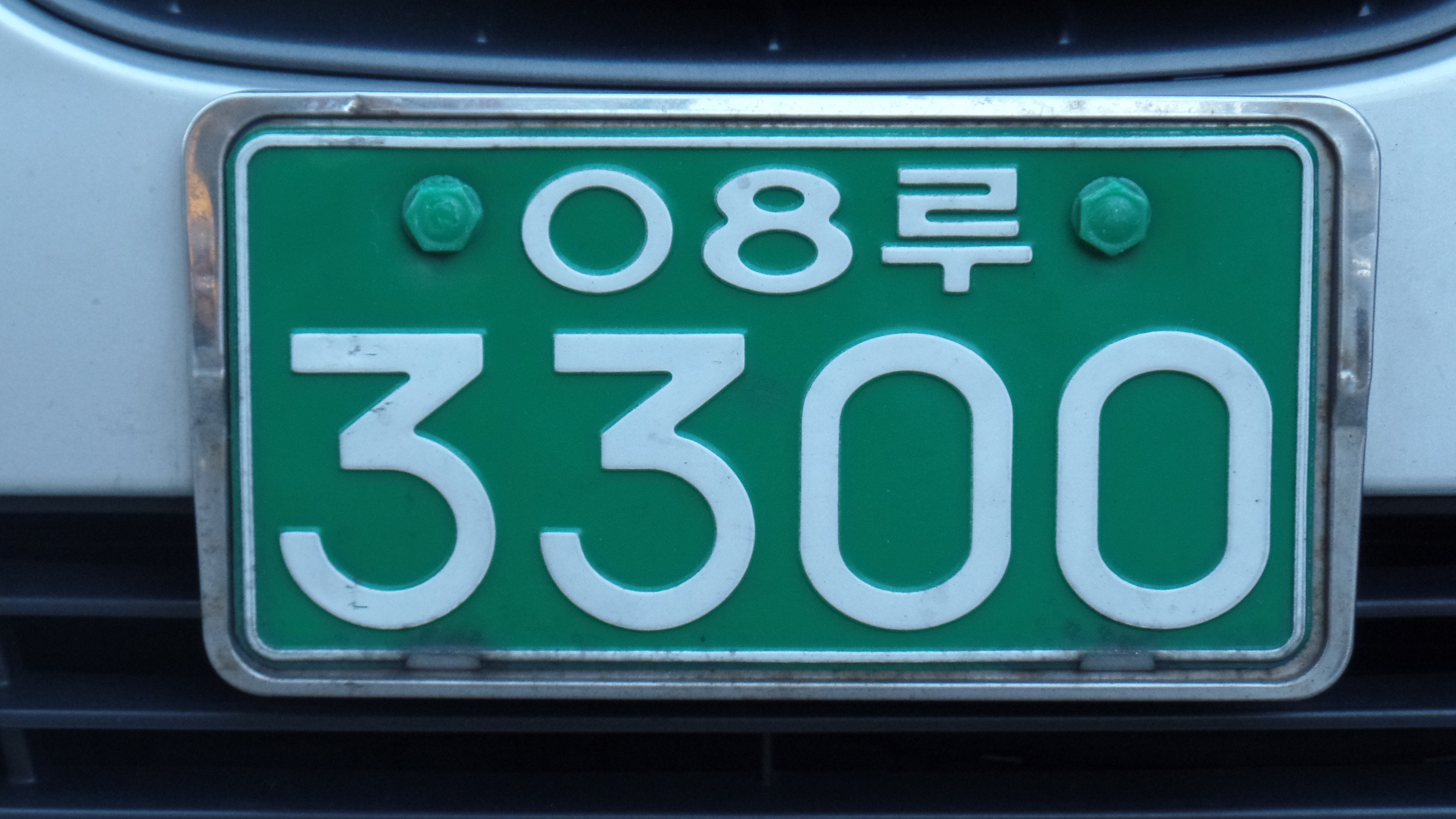 Republic of Korea Vehicle Registration Plate for Private Passenger Car(2004~2006)